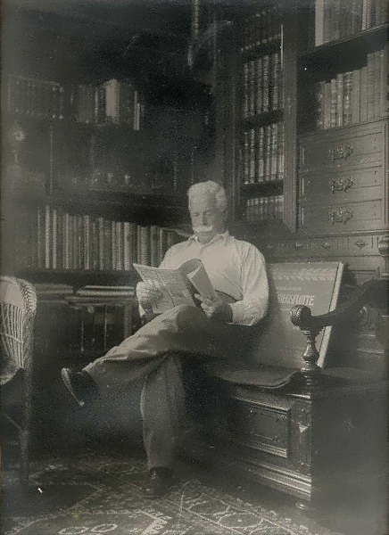 Alexander Kircher in his library room, after 1935 in Klotzsche, Ludwig-Jahn-Street 3, Saxony.